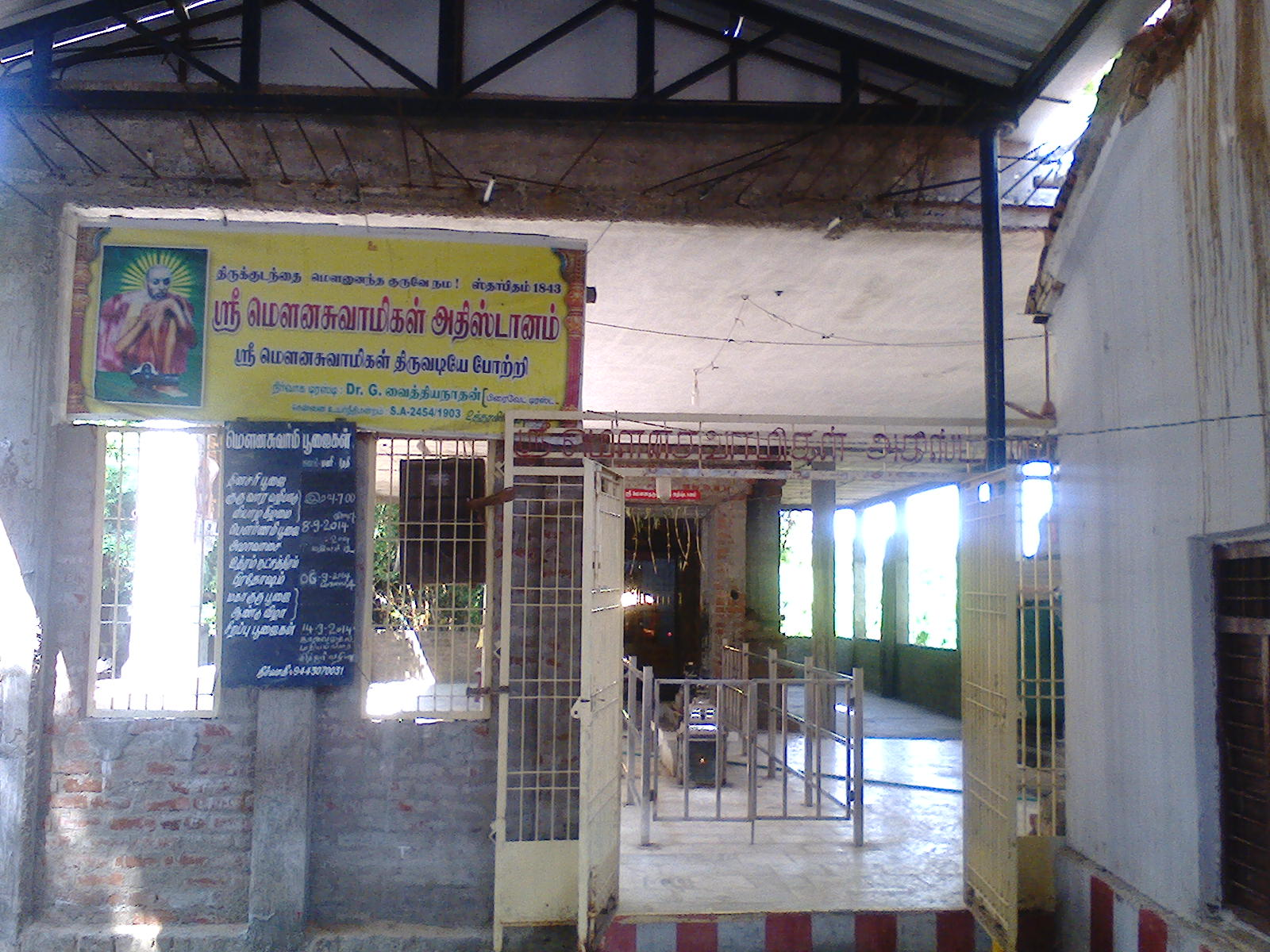 Mounasamy mutt கும்பகோணம் மௌனசுவாமி மடம்